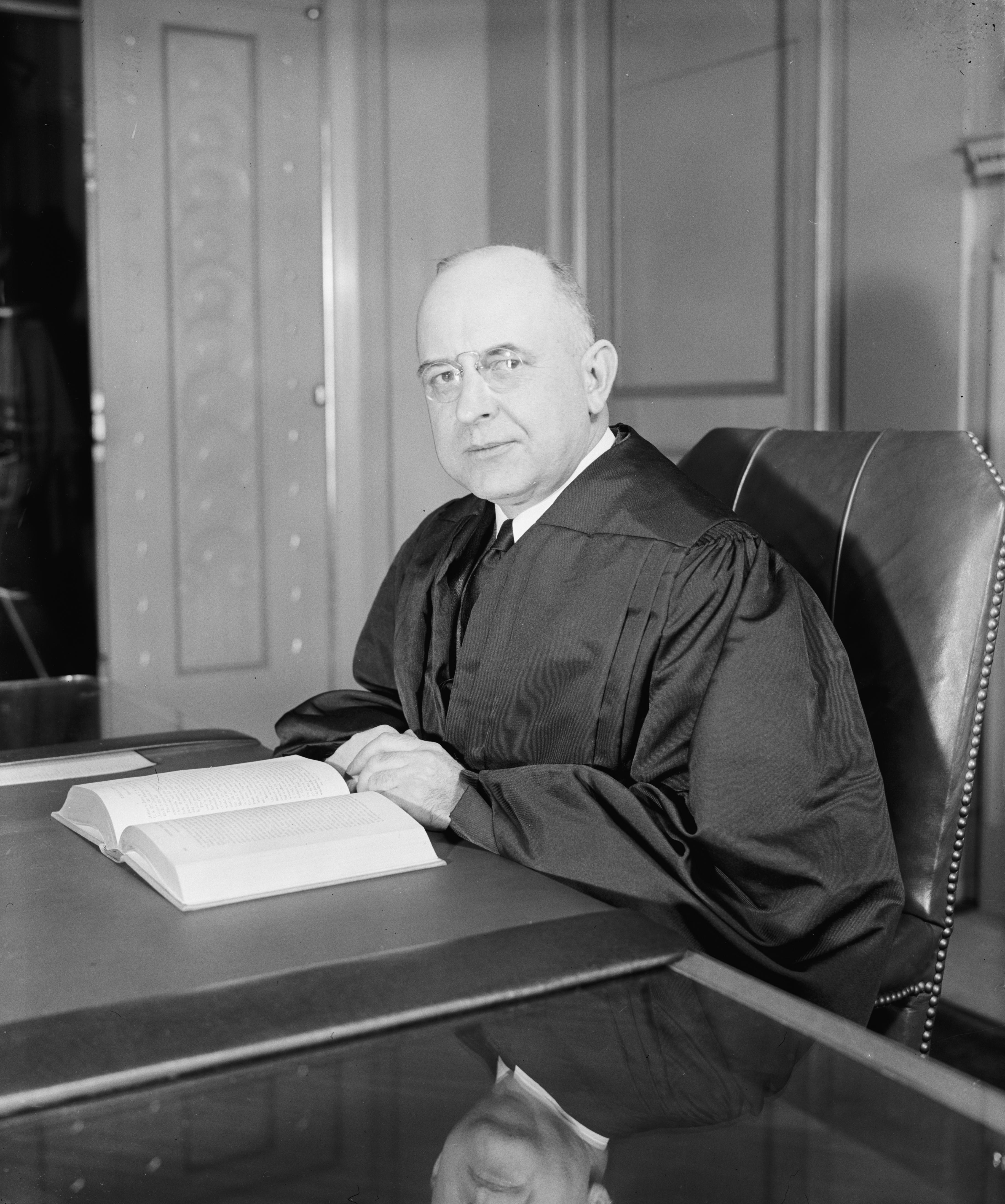 The new Associate Justice of the United States Supreme Court, Stanley Reed, pictured in his robes for the first time since his confirmation